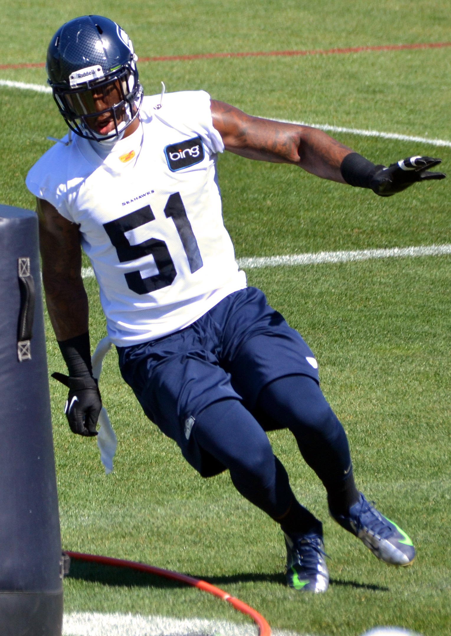 Bruce Irvin during 2013 Seattle Seahawks' training camp.